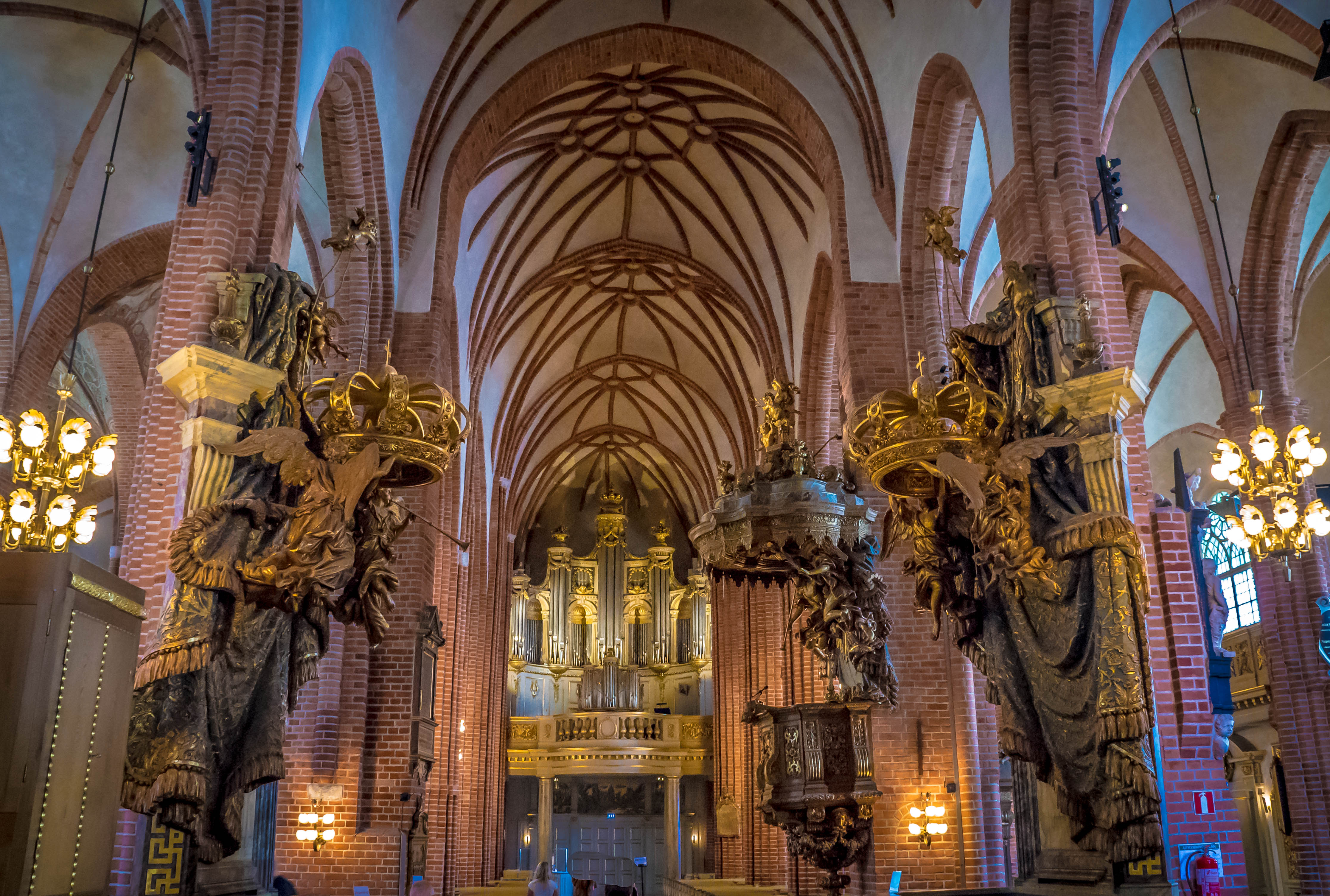 Stockholm Cathedral Sweden